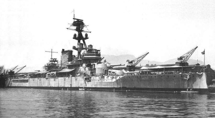 "Minas Gerais after major refit, seen here in 1942. Note the single massive funnel and the twin 20mm atop 'B' turret."